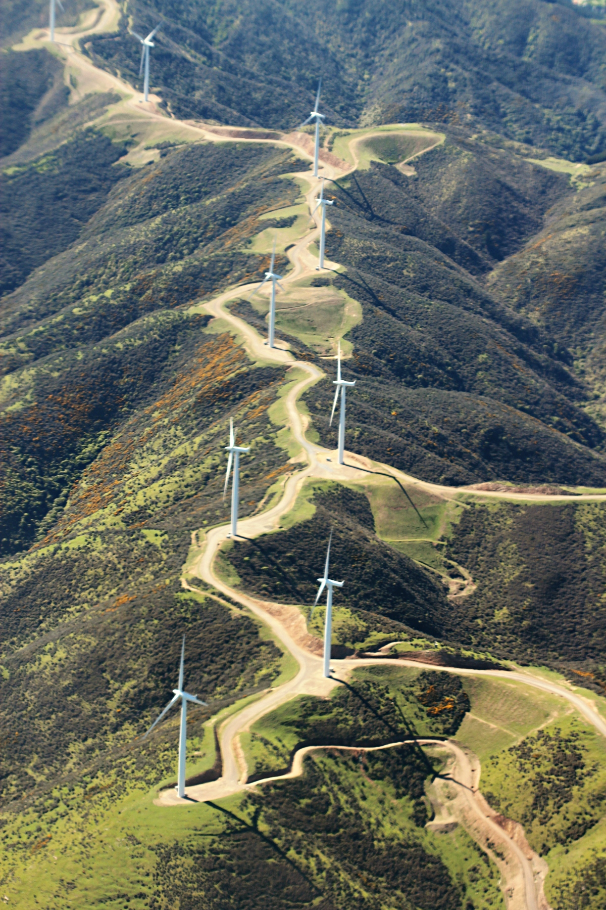 Part of the Project West Wind wind farm, near Wellington, New Zealand, from the air.